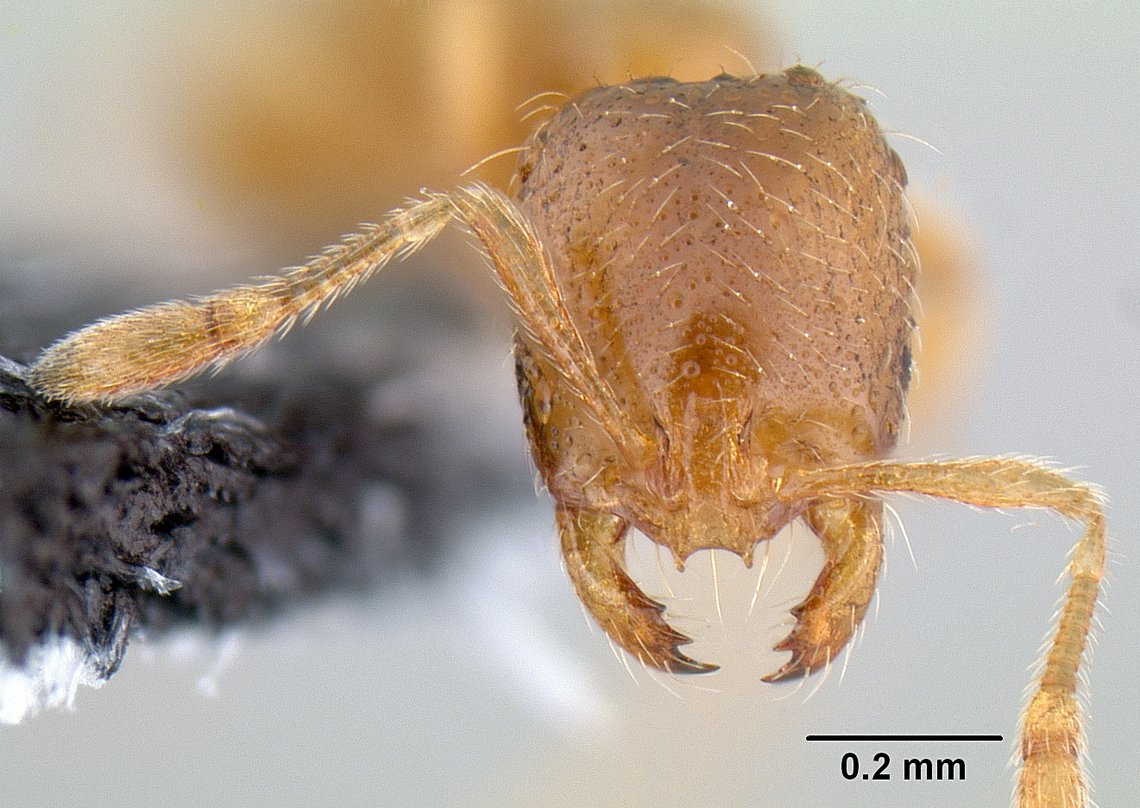 Head view of ant Solenopsis molesta specimen casent0106027.